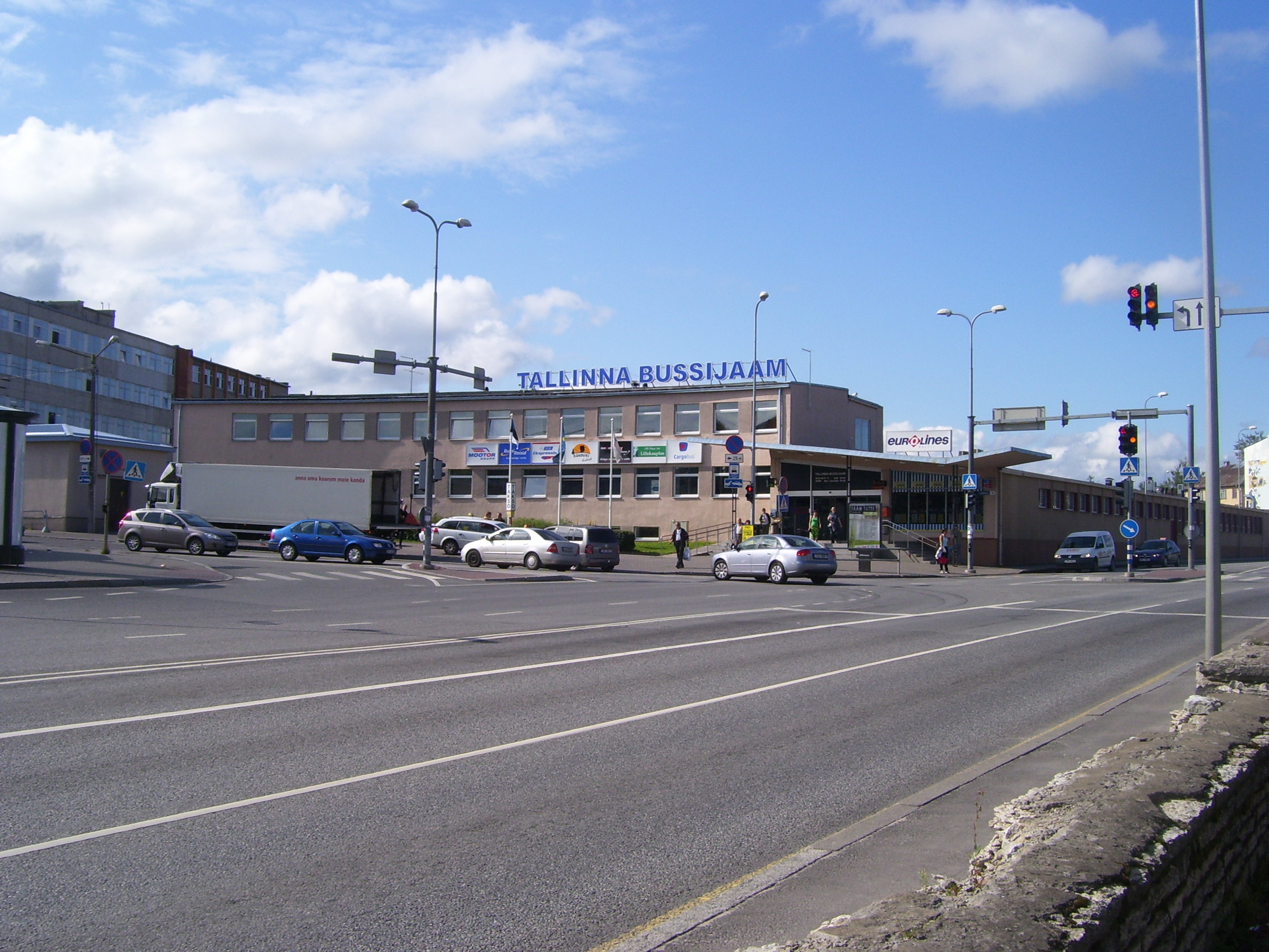 The main bus station of Tallinn, Estonia